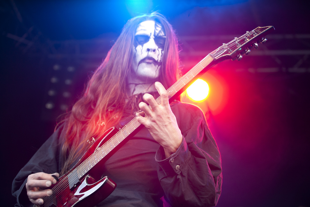 Seregor, lead vocalist/guitarist for Carach Angren, performing at Kabaal am Gemaal on 5 May 2010. Photographed with a Canon EOS 5D.